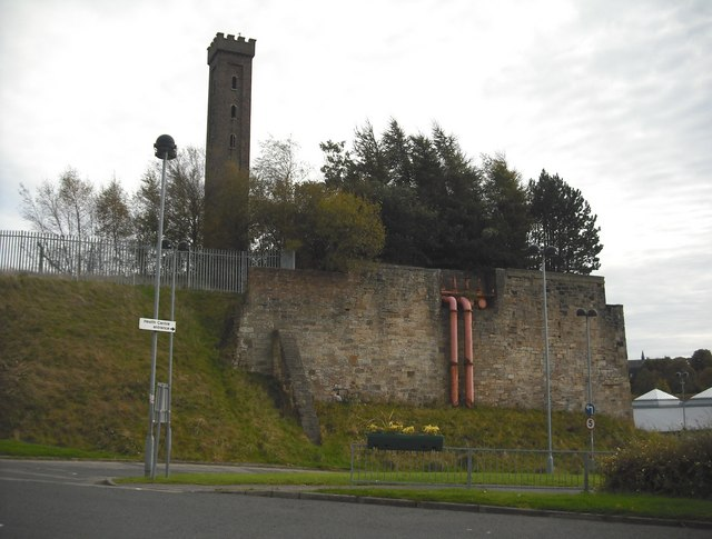 Shotts Iron Works Part of the remains of Shotts Iron Works opened in 1802 and demolished in the 1980's. The brick structure was a water tower.